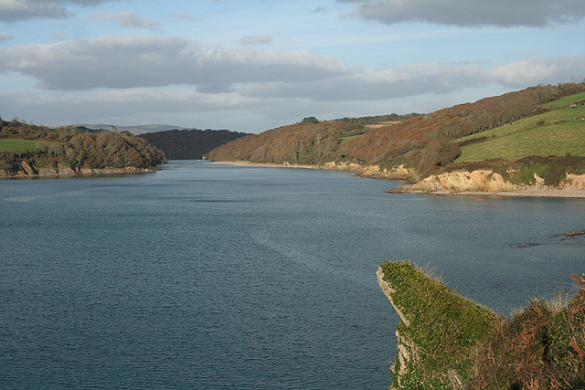 Kingston: the Erme from Muxham Point Wonwell Beach on the right. Dartmoor on the skyline in the distance. Just after high tide